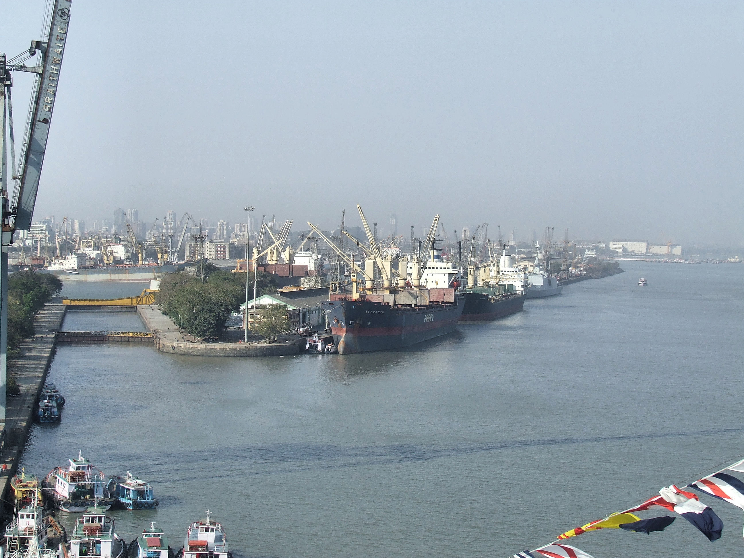 Docks of Mumbai Port Trust